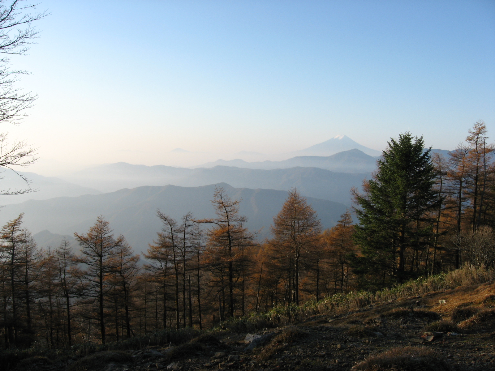 The view of Mt.Fuji (right) from Mt.Nanatsuishi (七ツ石山 Nanatsuishi-yama), Mts.Okutama, Tokyo, Japan.